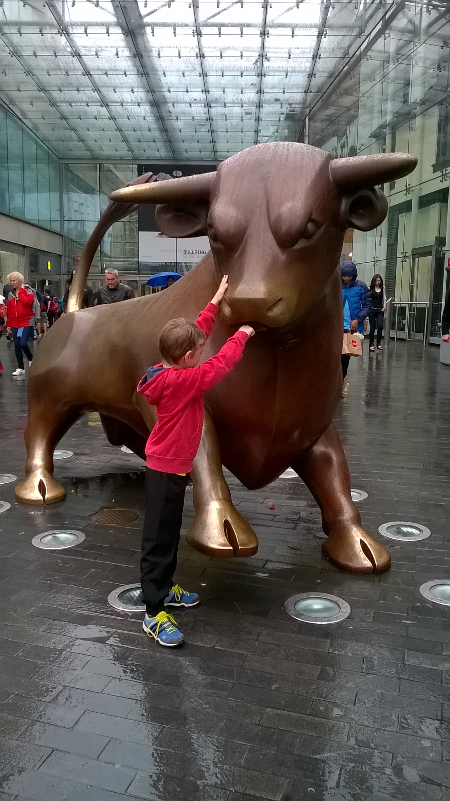 Bull-Ring-Center-Bull under threat